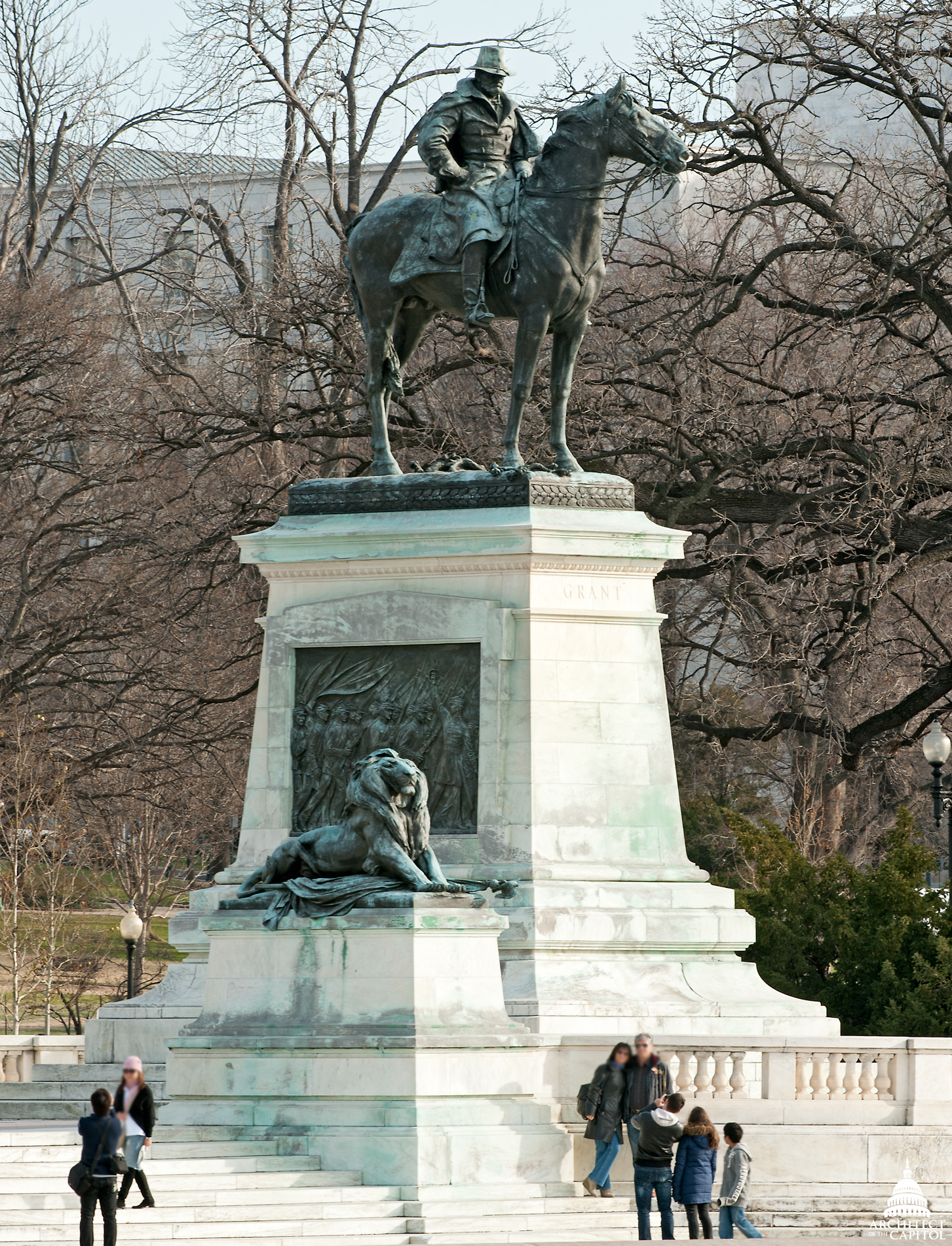 The bronze and marble Ulysses S. Grant Memorial by Henry Merwin Shrady is located by the reflecting pool at the east end of the National Mall, west of the United States Capitol. Its central figure depicts the Civil War general (and future president) seated and still on horseback, as was his custom while observing a battle; bronze reliefs on the marble pedestal show infantry soldiers on the march. Four bronze lions around the pedestal impart a sense of strength and dignity. At the ends of the monument, groups of soldiers and horses appear in tumultuous action, with cavalry at the north and artillery at the south. Measuring 44 feet high and occupying a marble platform over 250 feet long and 70 feet deep, the monument is the largest statuary group in Washington, D.C.; the sculpture of Grant is among the largest equestrian statues in the world. This official Architect of the Capitol photograph is being made available for educational, scholarly, news or personal purposes (not advertising or any other commercial use). When any of these images is used the photographic credit line should read “Architect of the Capitol.” These images may not be used in any way that would imply endorsement by the Architect of the Capitol or the United States Congress of a product, service or point of view. For more information visit